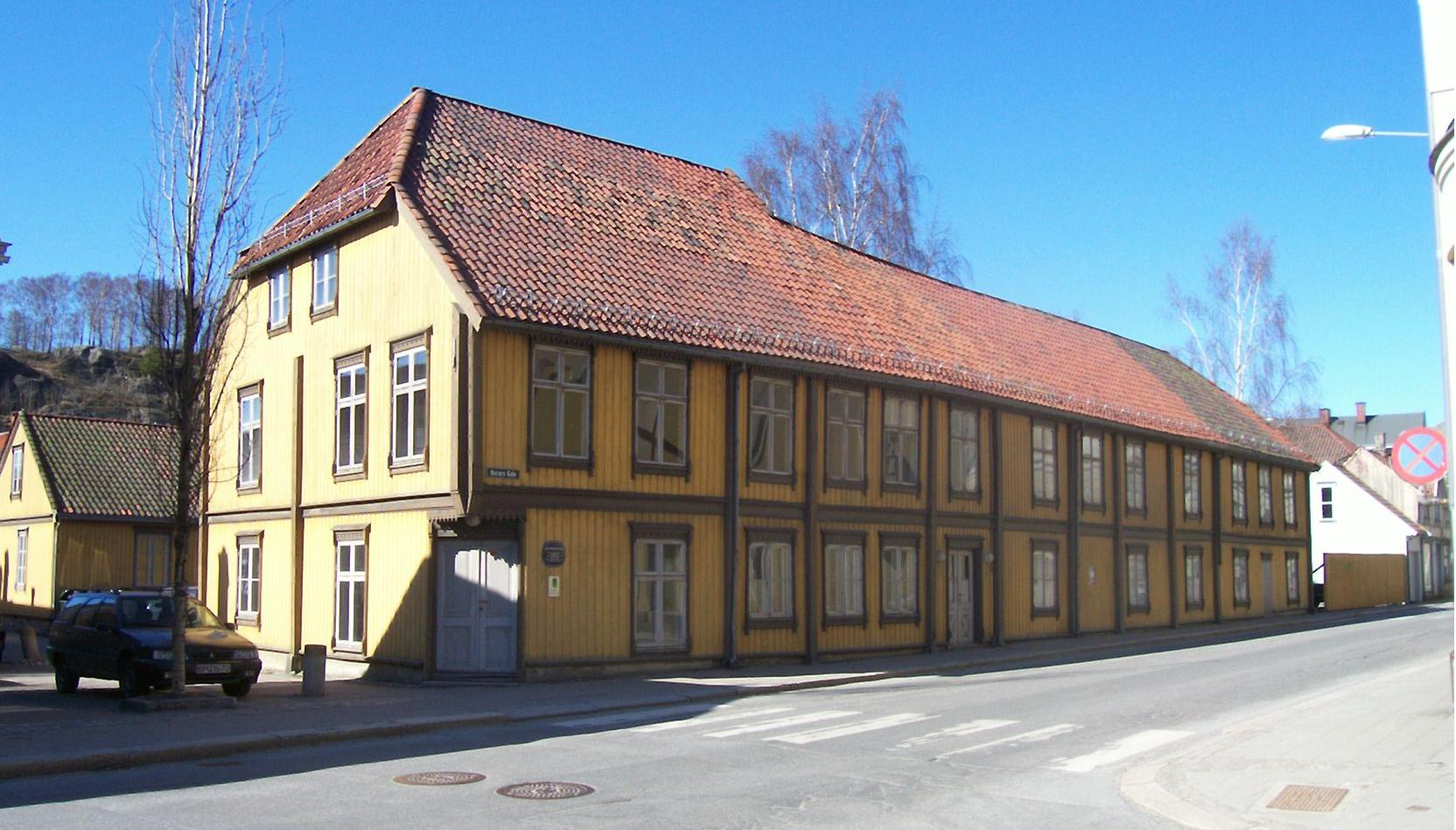 "Konservativen" in Halden, Norway